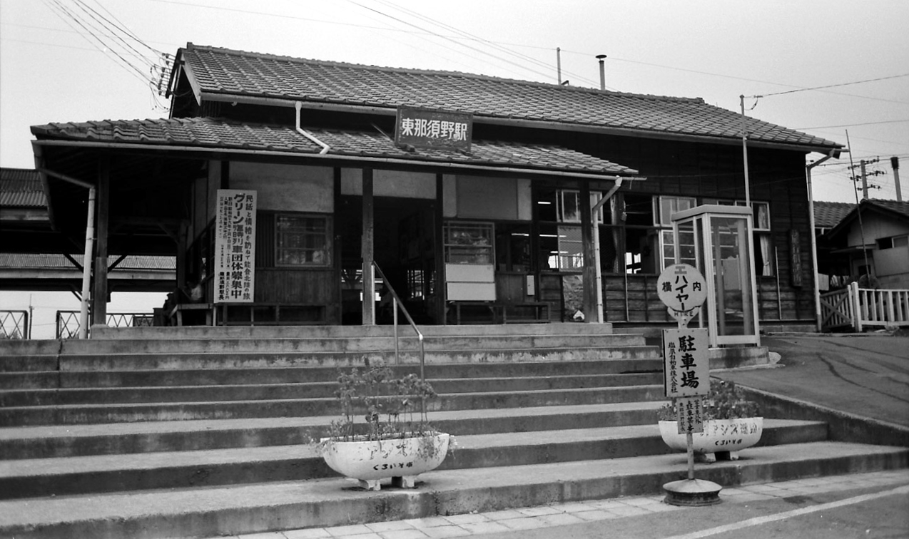 Higashi-Nasuno Station (later Nasushiobara Station) in the 1970s